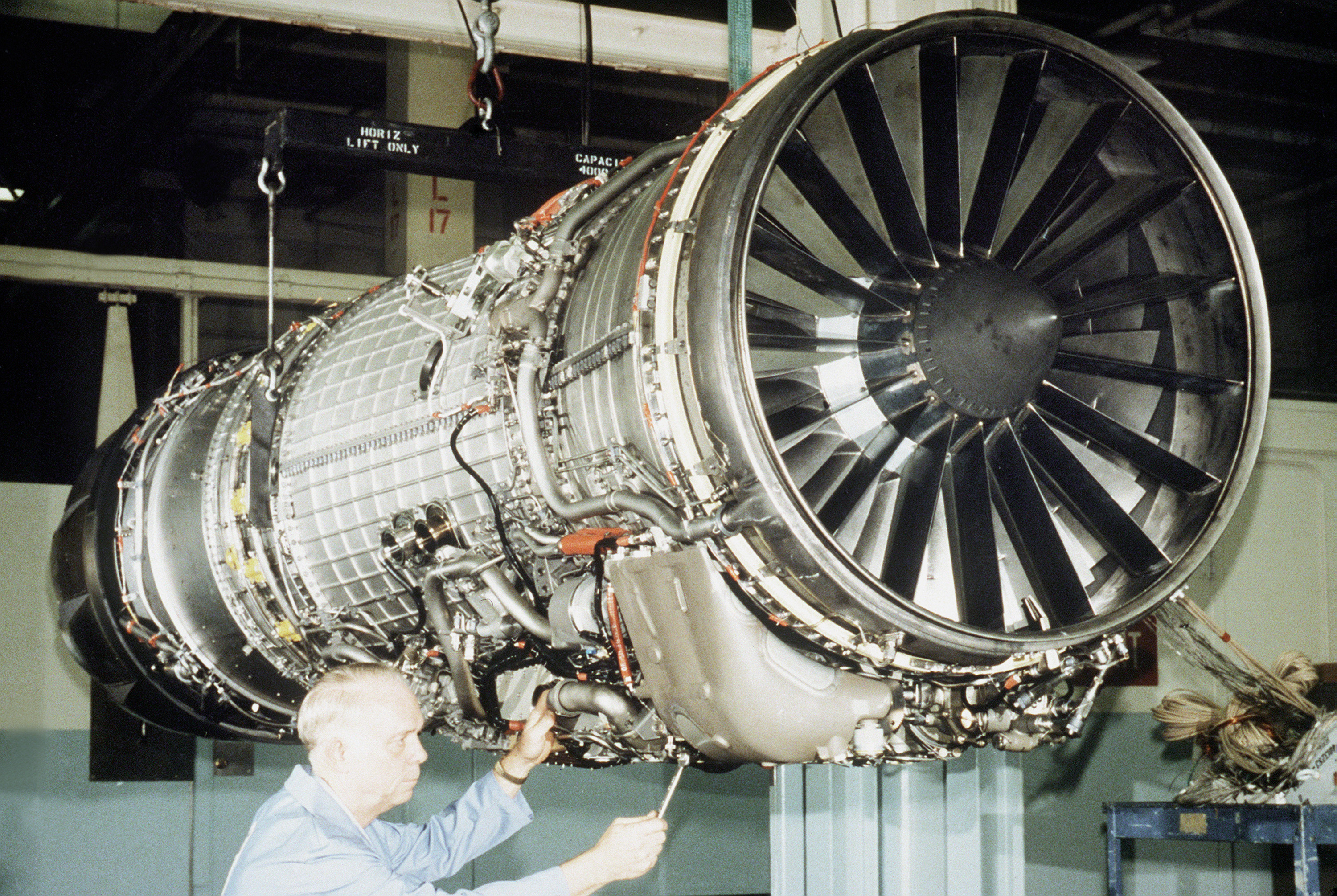 A technician works on the new F-110 turbofan engine to be used in the F-16 aircraft.